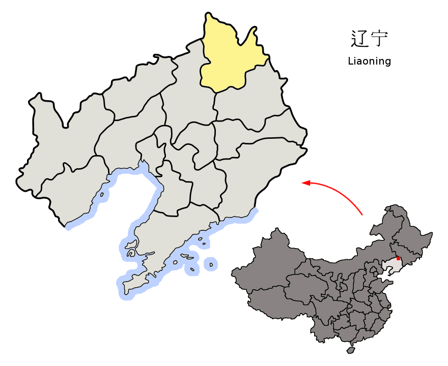 Location of Tieling Prefecture (yellow) within Liaoning Province of China Map drawn in november 2007 using various sources, mainly : Liaoning Province administrative regions GIS data: 1:1M, County level, 1990 Liaoning Counties map from